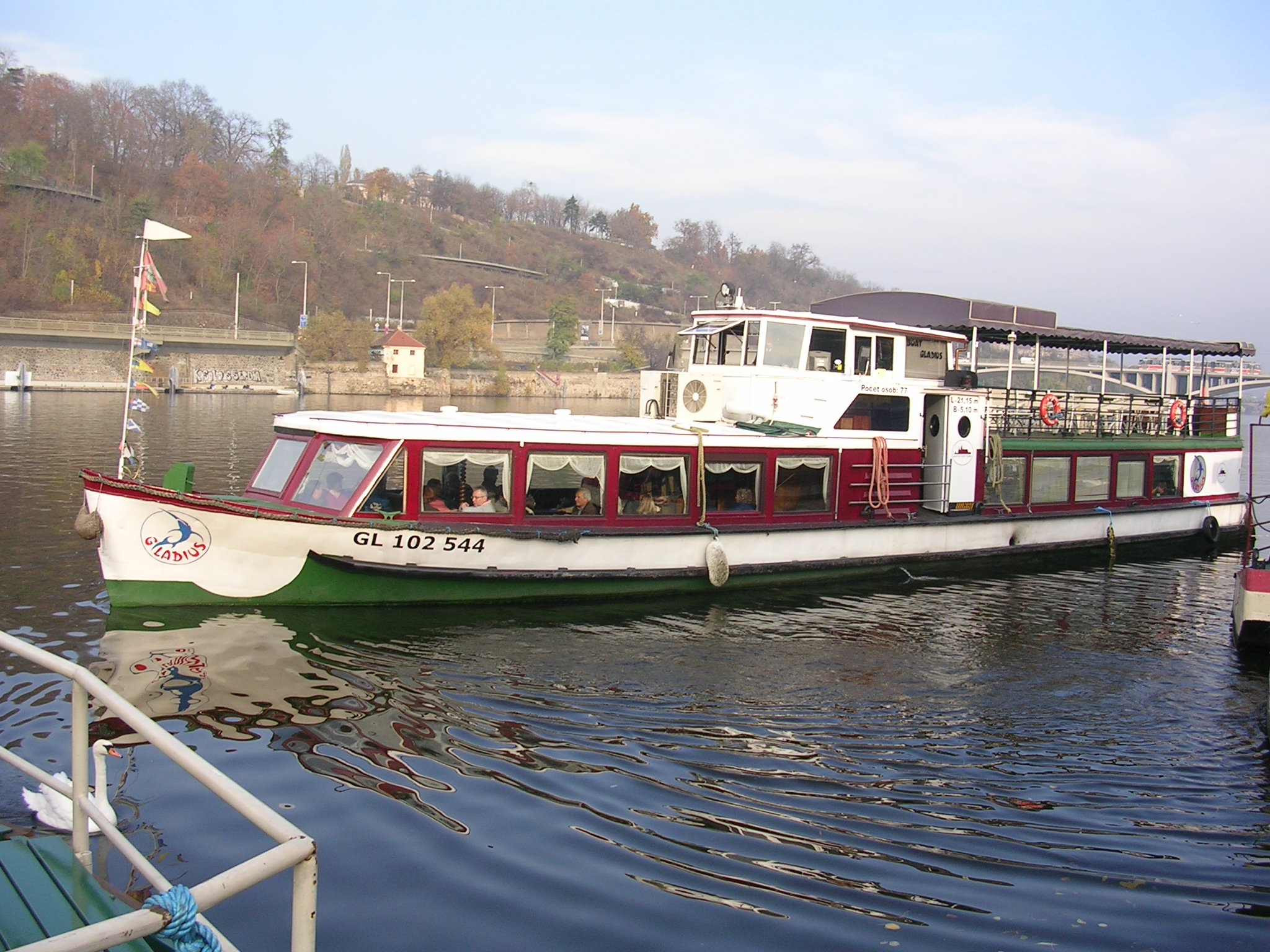 Prague, Gladius Ship.